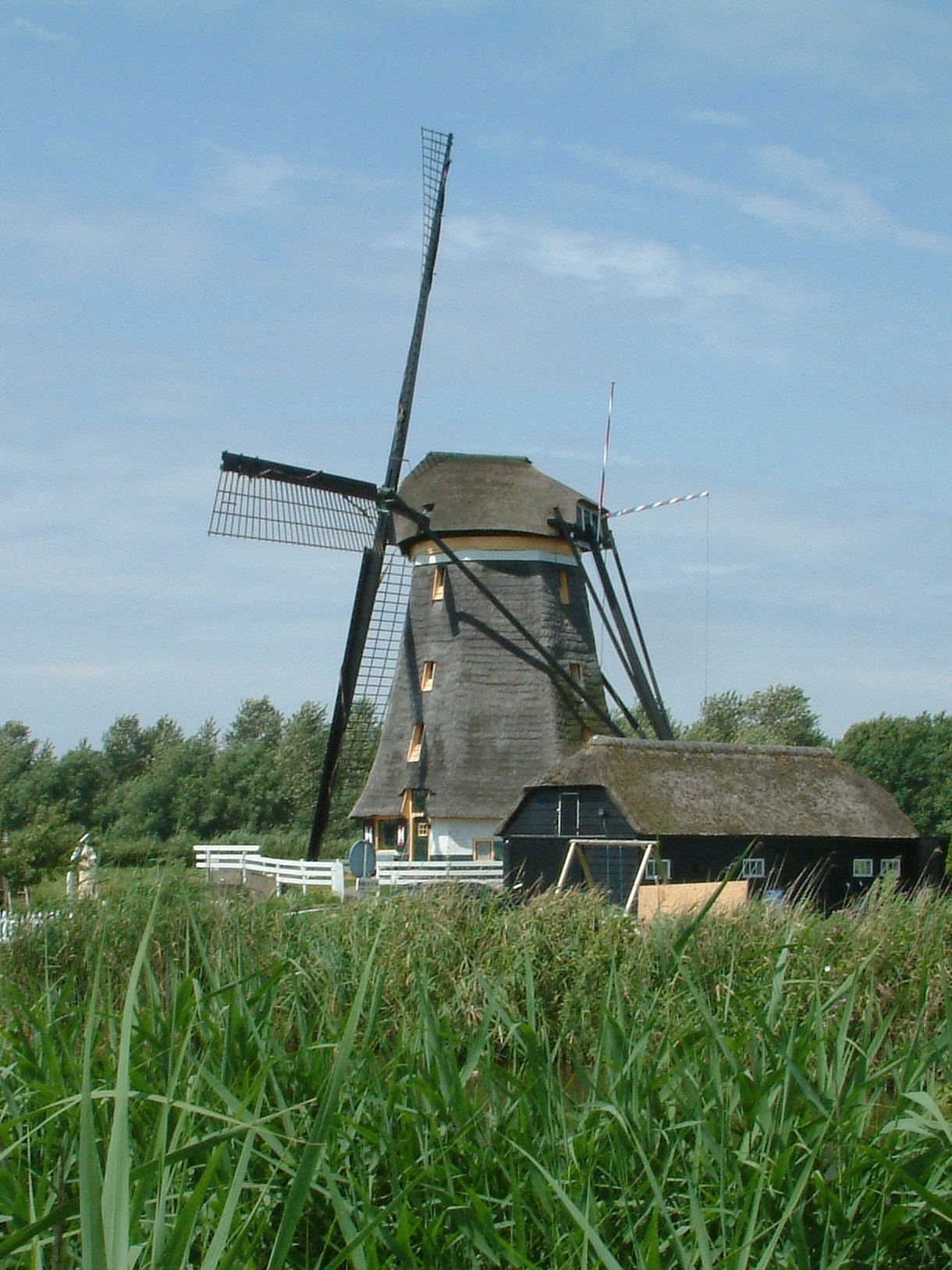 Windmill Eendrachtsmolen near Zevenhuizen